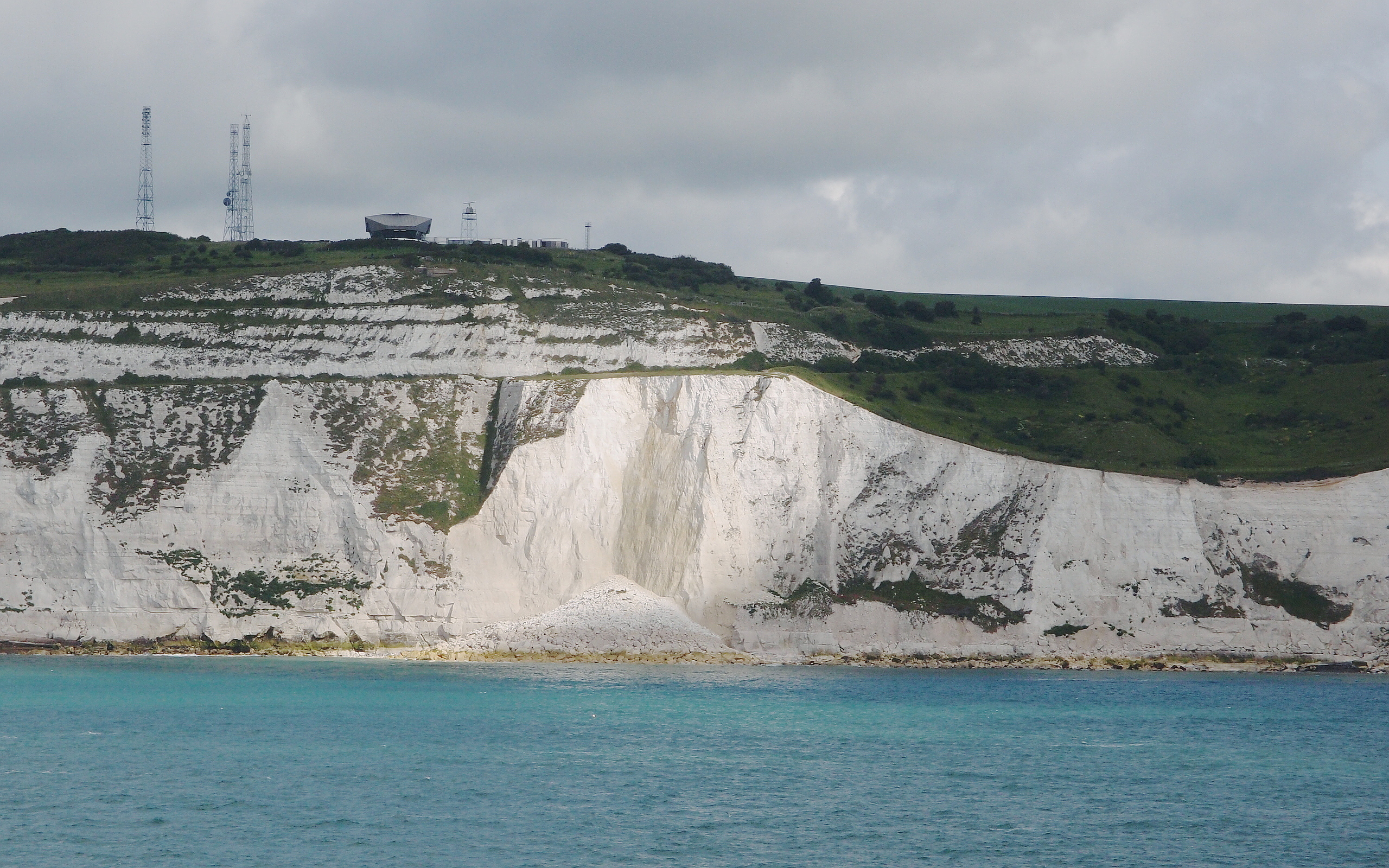 Cliffs of Dover right east of Dover port, with a relatively fresh subsidence. On the top left is the coast guard building.